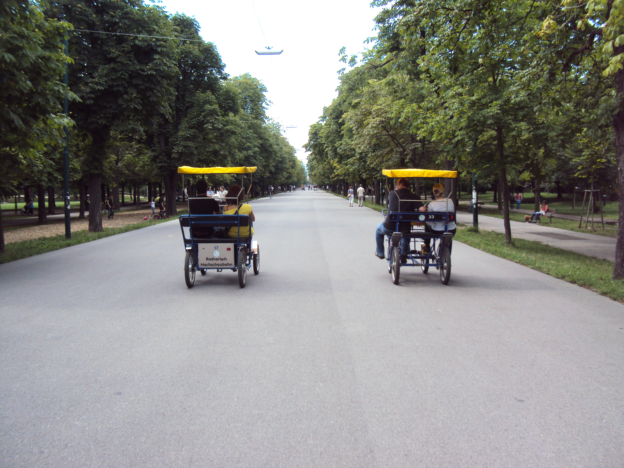 The Hauptallee (promenade) of Prater park in Vienna